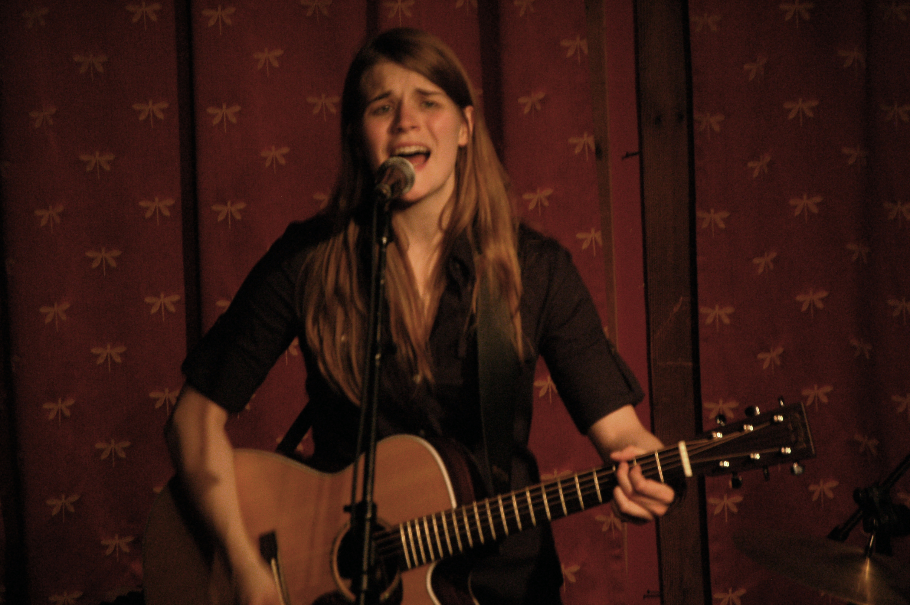 Jenny Owen Youngs performing at Mississippi Studios in Portland, Oregon, as the opening act for Vienna Teng's Green Caravan tour.